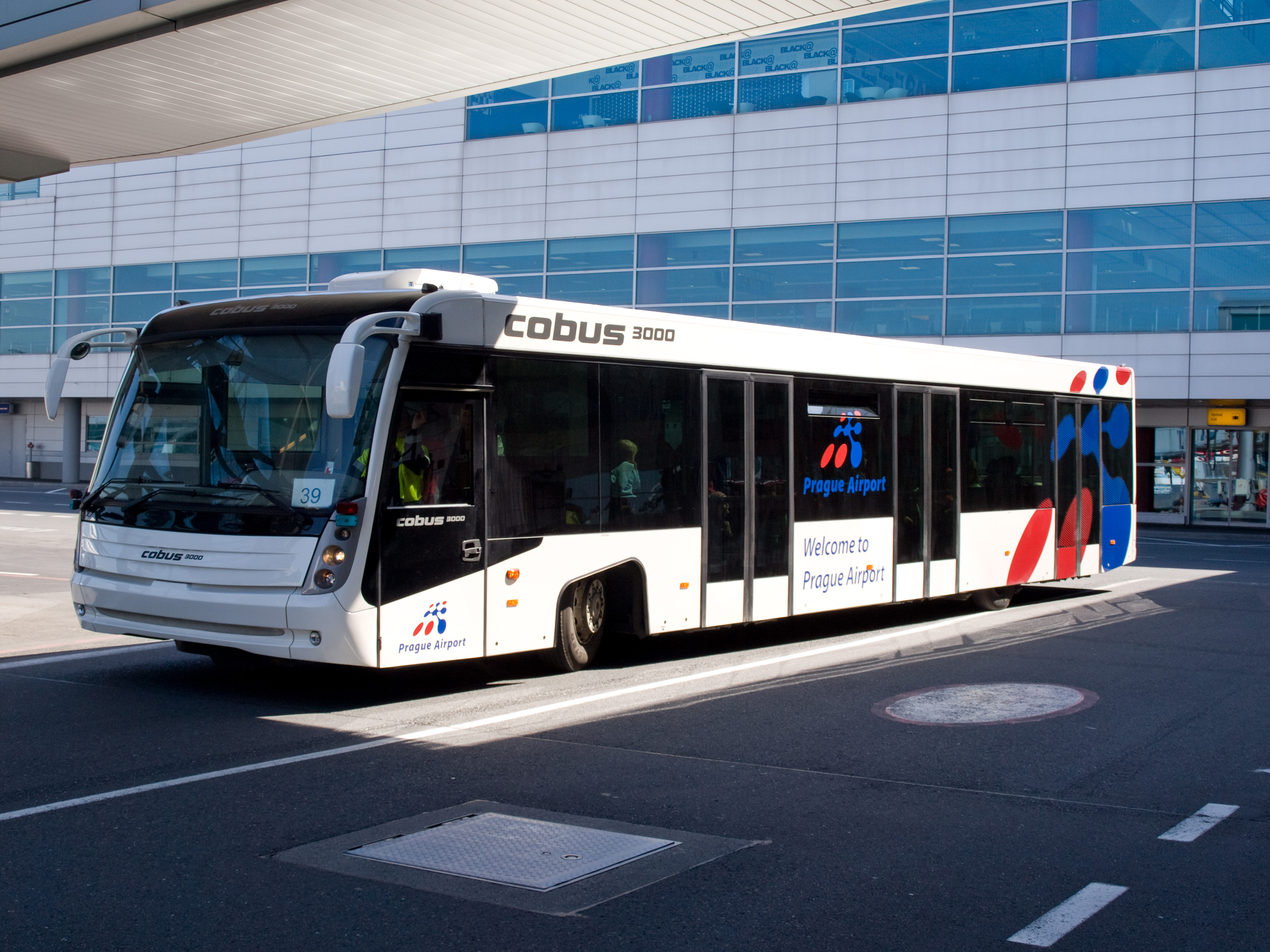 Airport bus Contrac Cobus 3000, Open Doors Day because of closed air space above the Czech Republic